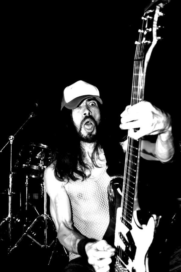 Chris Teckkam, Ten Benson, wields his axe at The Garage, Holloway, London, 2003.